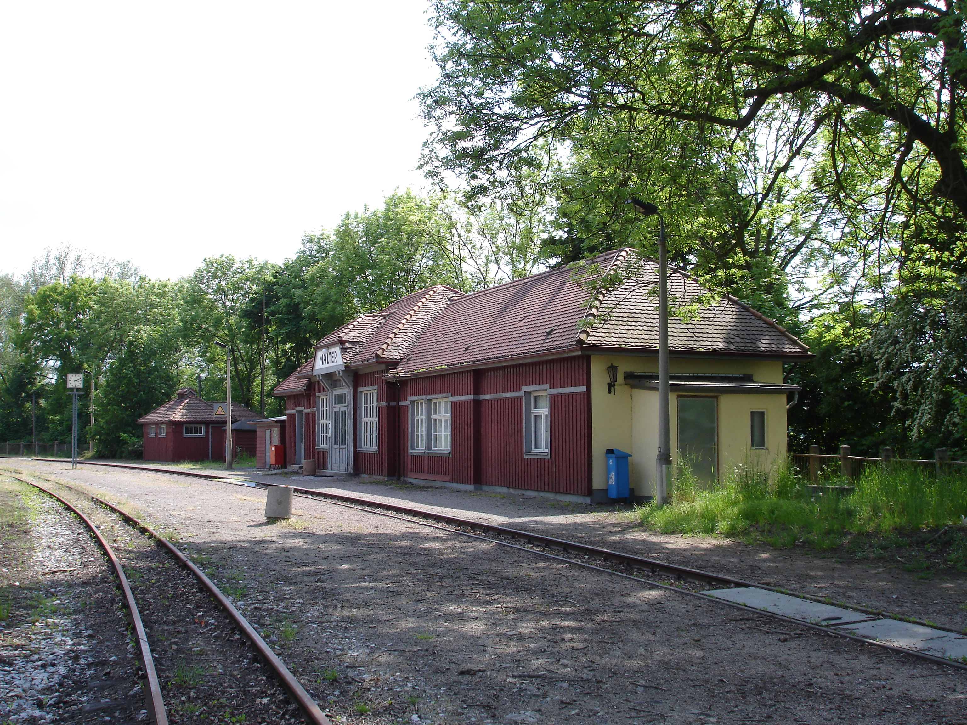 station Malter, Weißeritztalbahn, Saxony, Germany